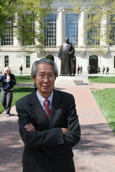 Mugshot